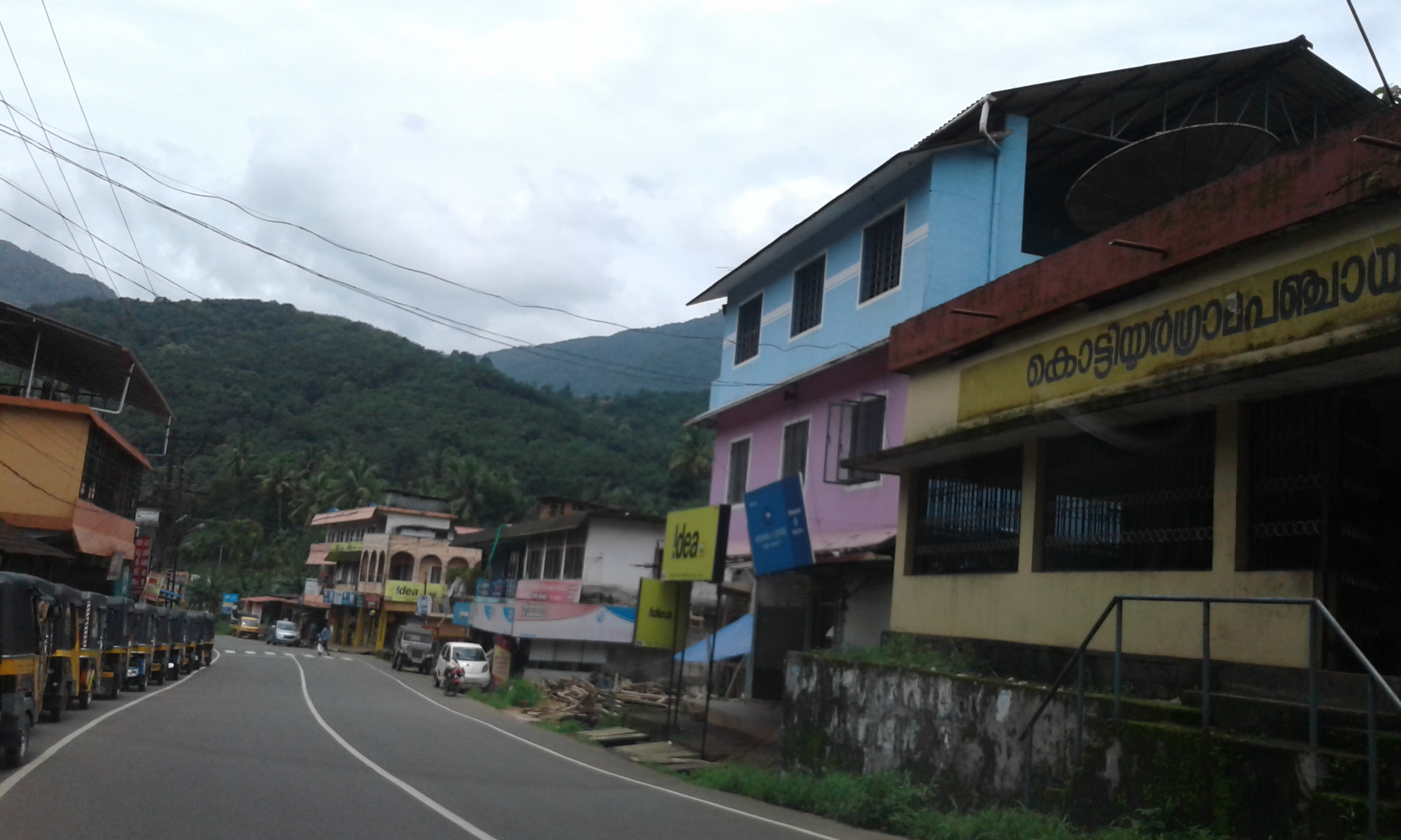 Aview of Chungakkunnu Town